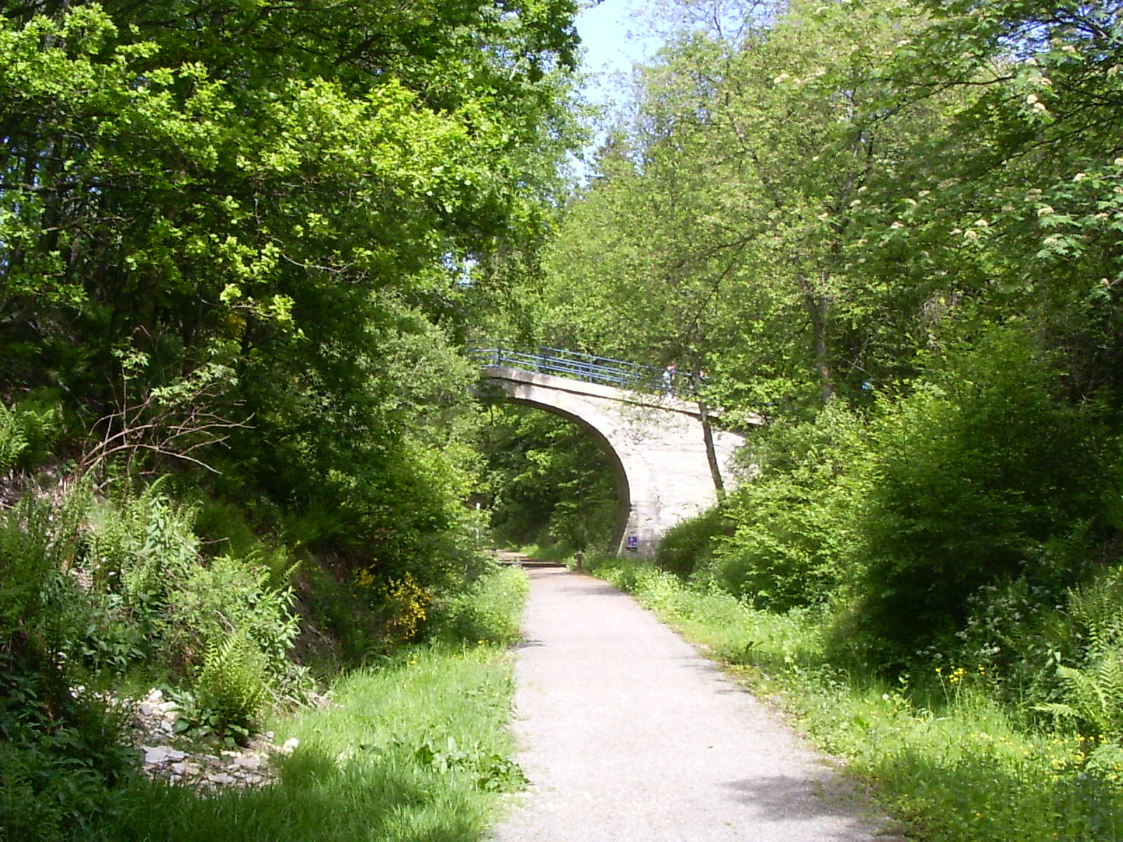 Bridge across the bikeway Spa - Stavelot 500 m north of the centre of Hockai, the small road over the bridge is named Devant Chéneu and forms at this place the border between the municipalities of Hockai and Jalhay